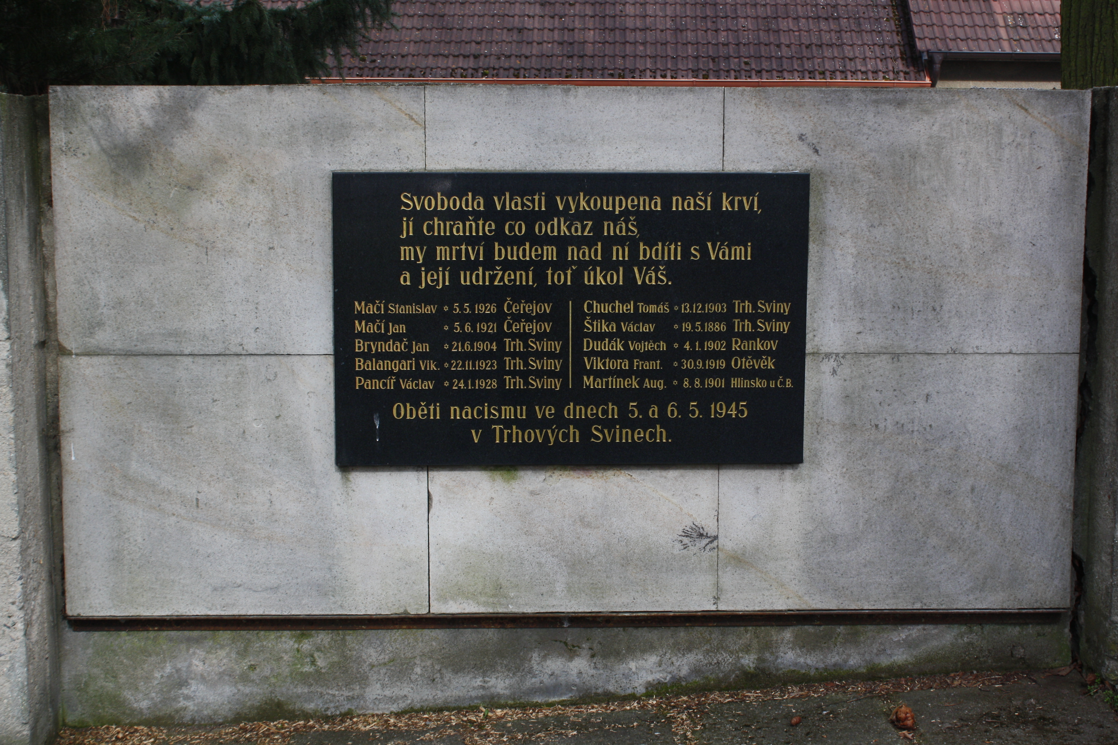 Trhové Sviny, District České Budějovice